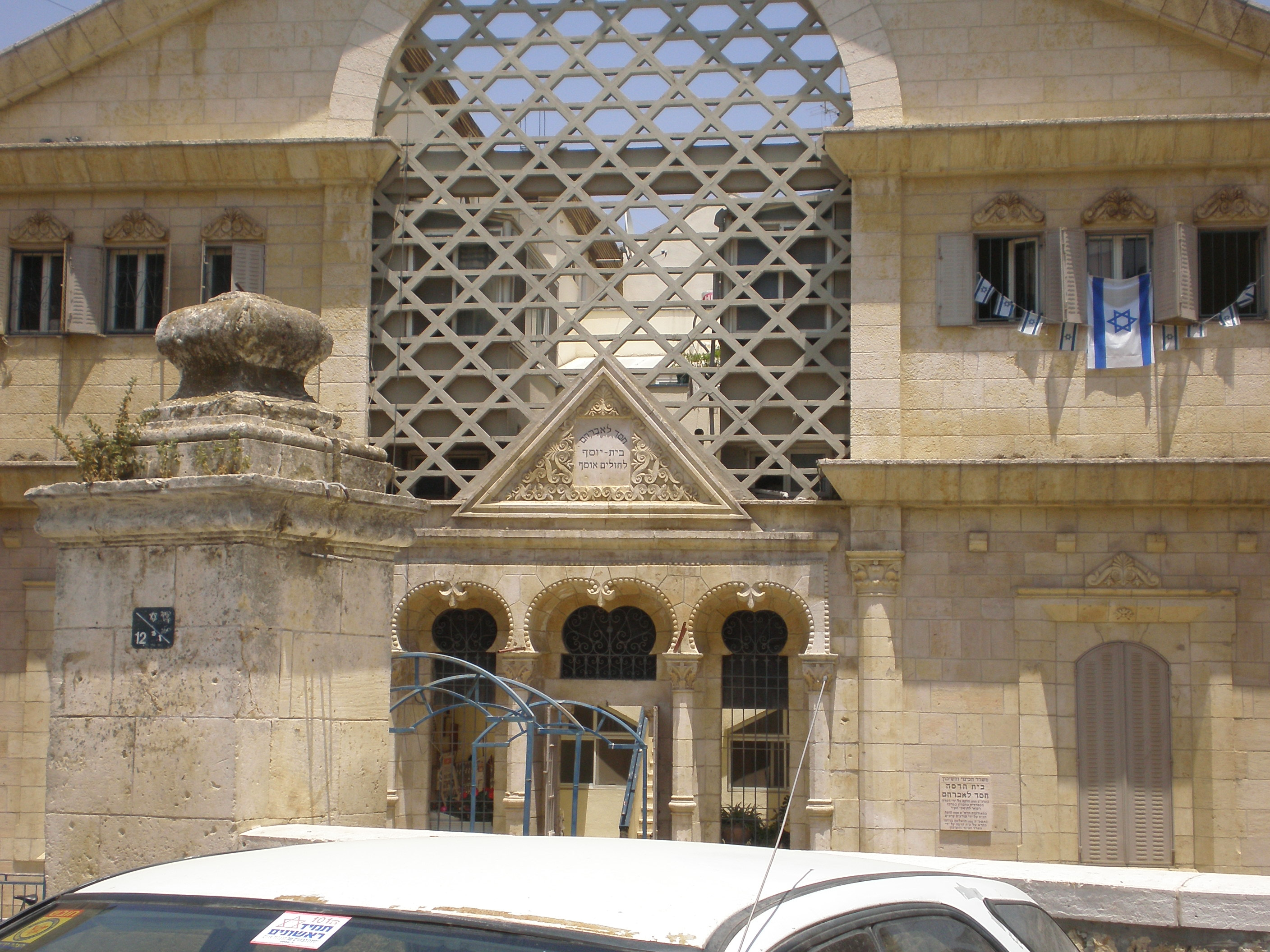 Former Hadassah Hospital in Hebron